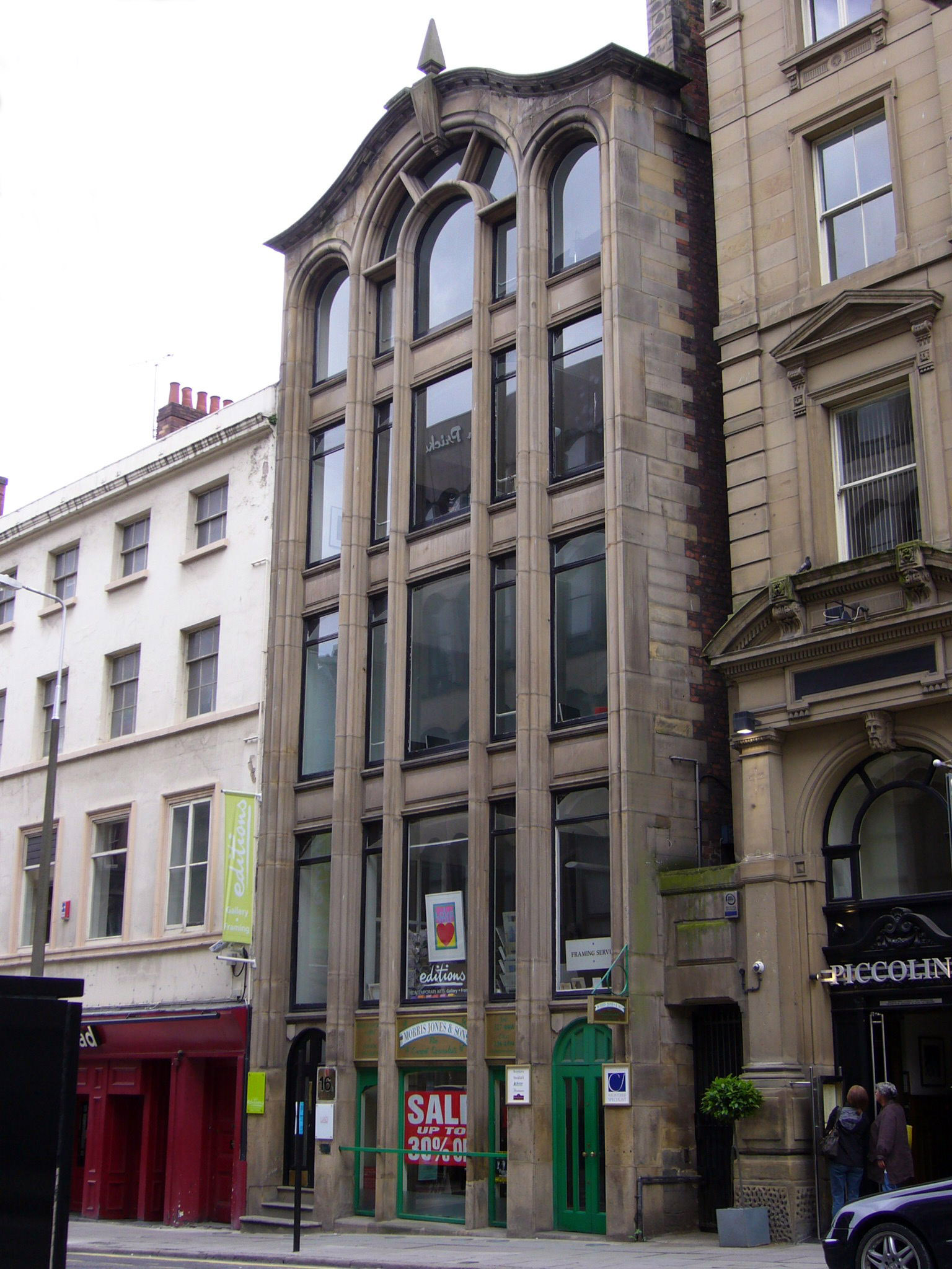 Oriel Chambers about 400 metres west of 16 Cook Street. The only other work of Peter Ellis 16 Cook Street, Liverpool, L2 at grid reference SJ343903. Designed by Peter Ellis.